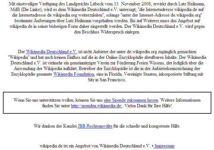 Screenshot from stating the link to has been removed. This is in relation to the article about Lutz Heilmann on the German Language Wikipedia